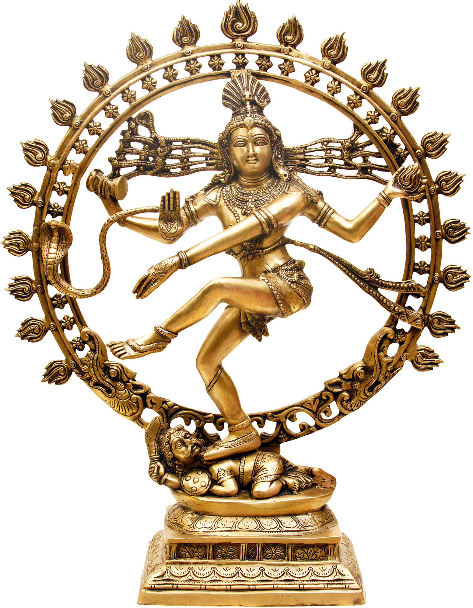 නටරාජා, ශිව දෙවියන්ගේ තාණ්ඩව නර්තන ඉරියව්ව